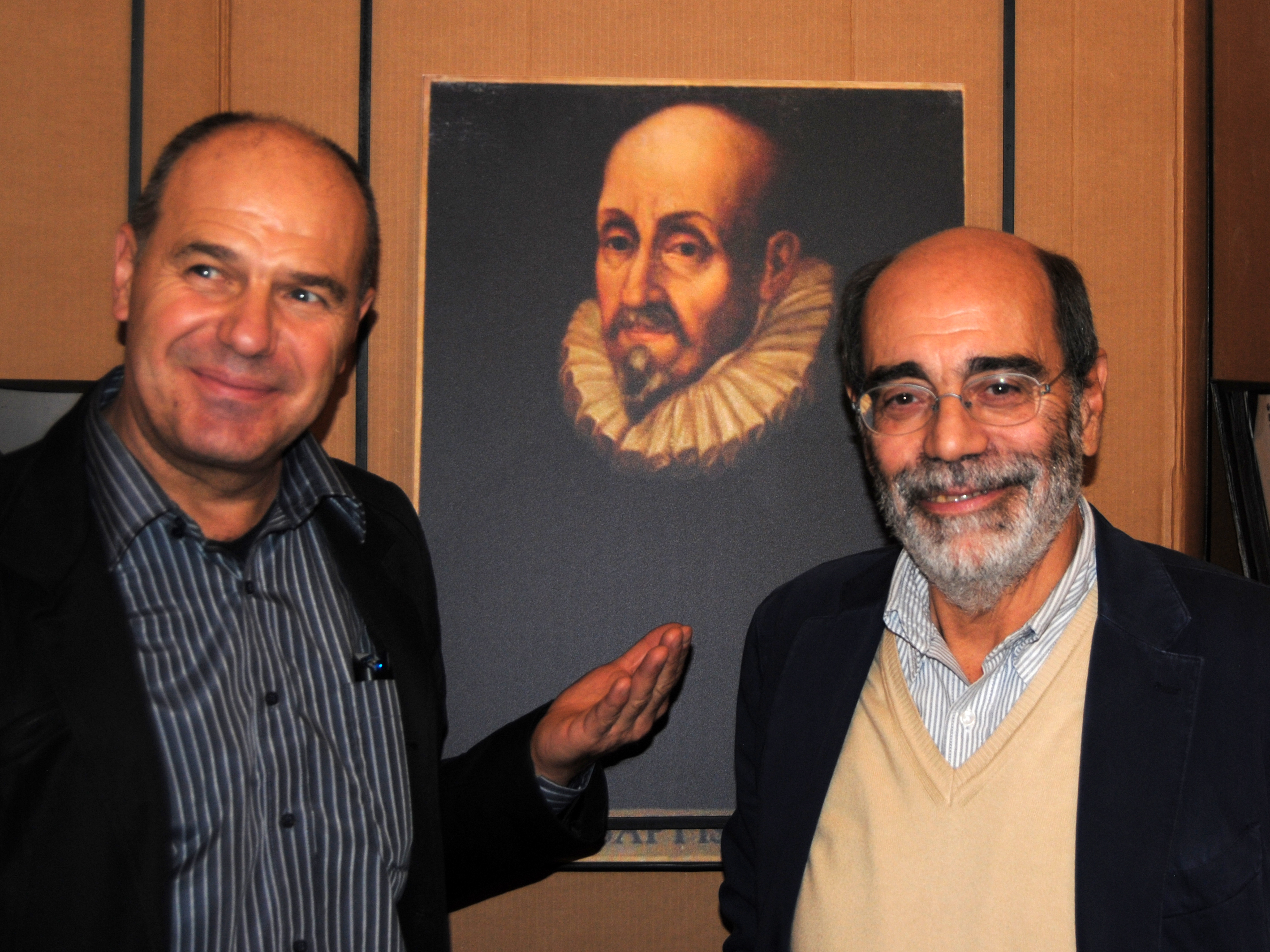 Italian historian Marco Santoro with writer giordano Berti